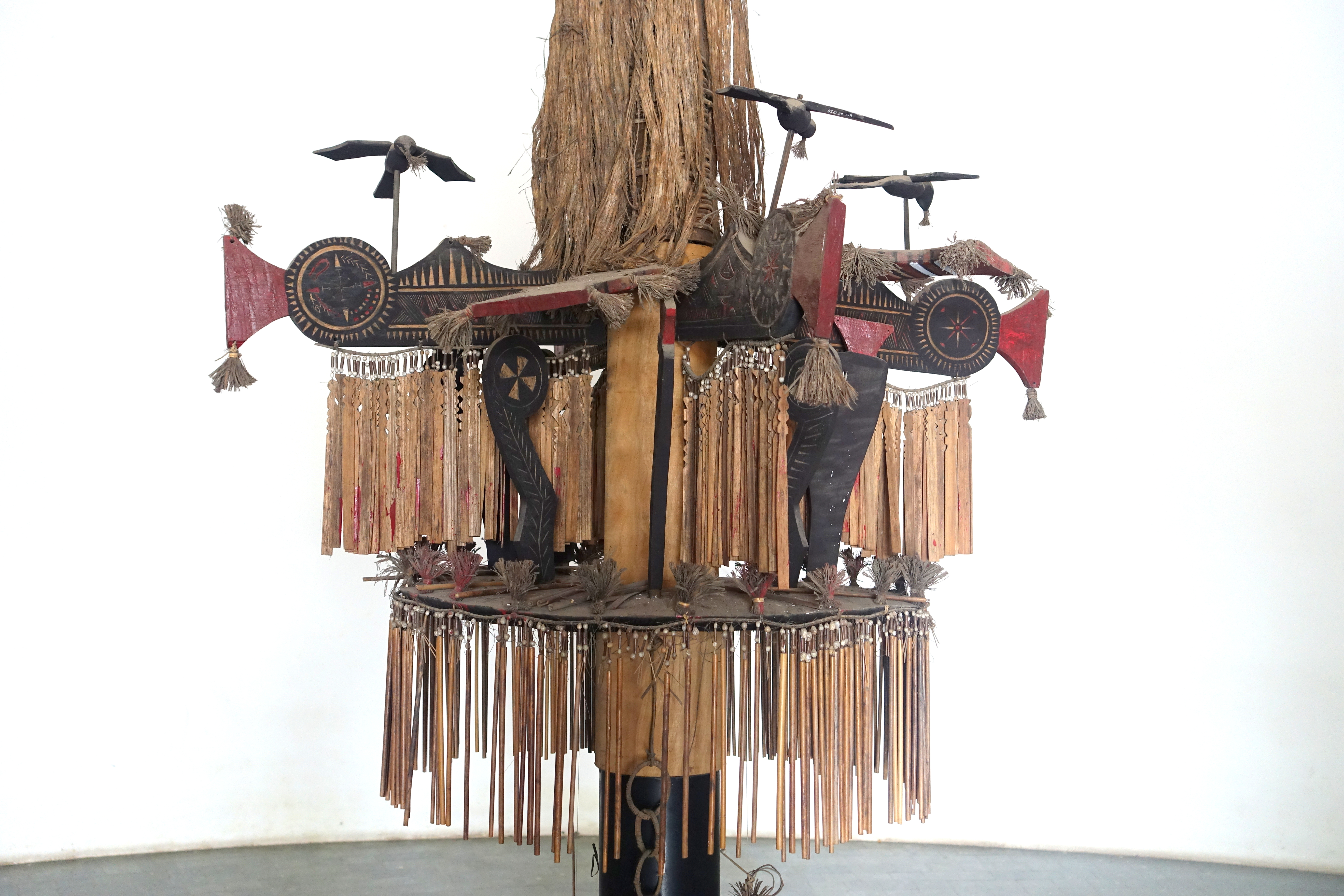 Exhibit in the Vietnam Museum of Ethnology - Hanoi, Vietnam.